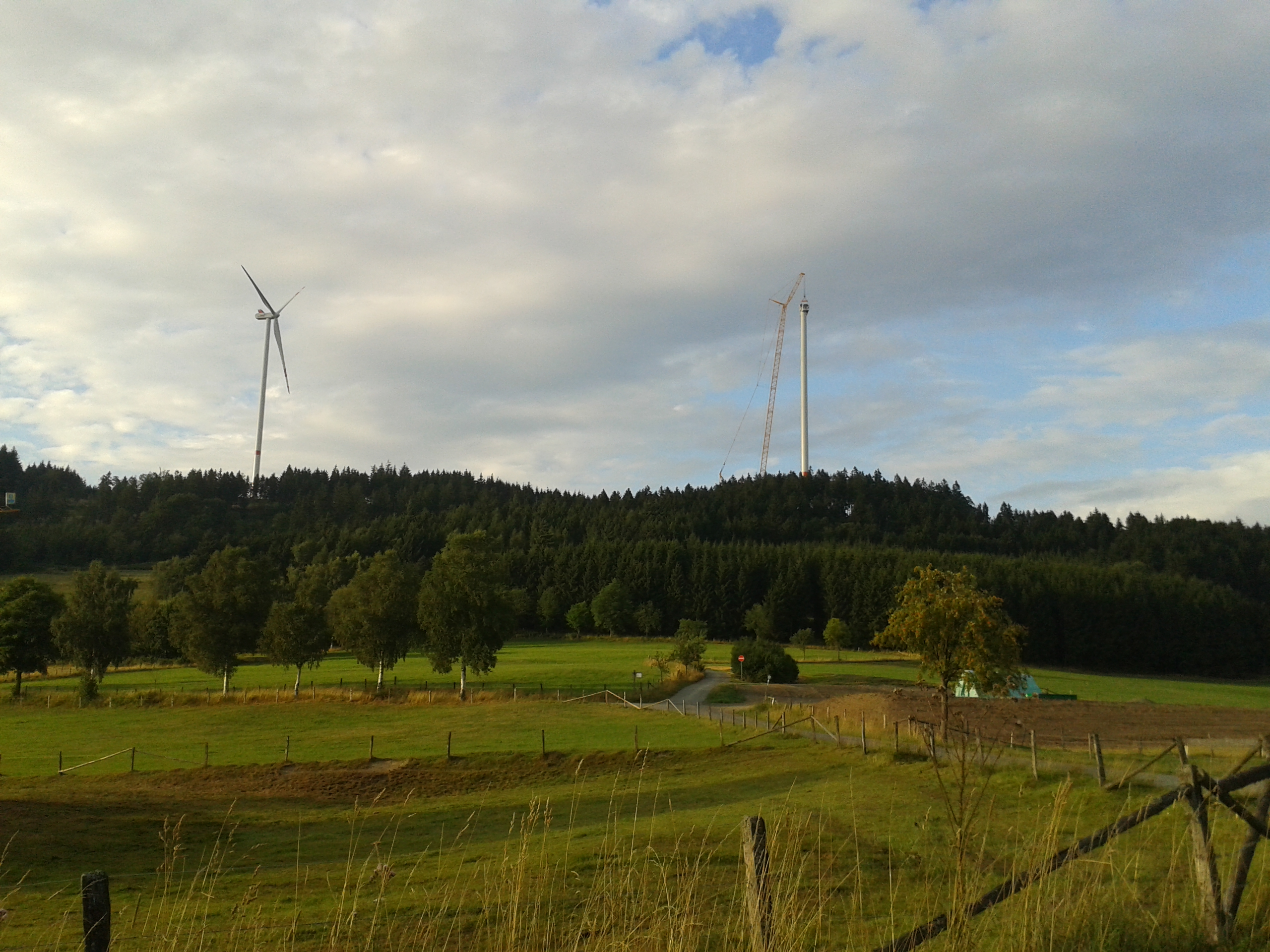 The engine house is brought on a wind turbine of the Hesselbach Wind Farm, August 2013.